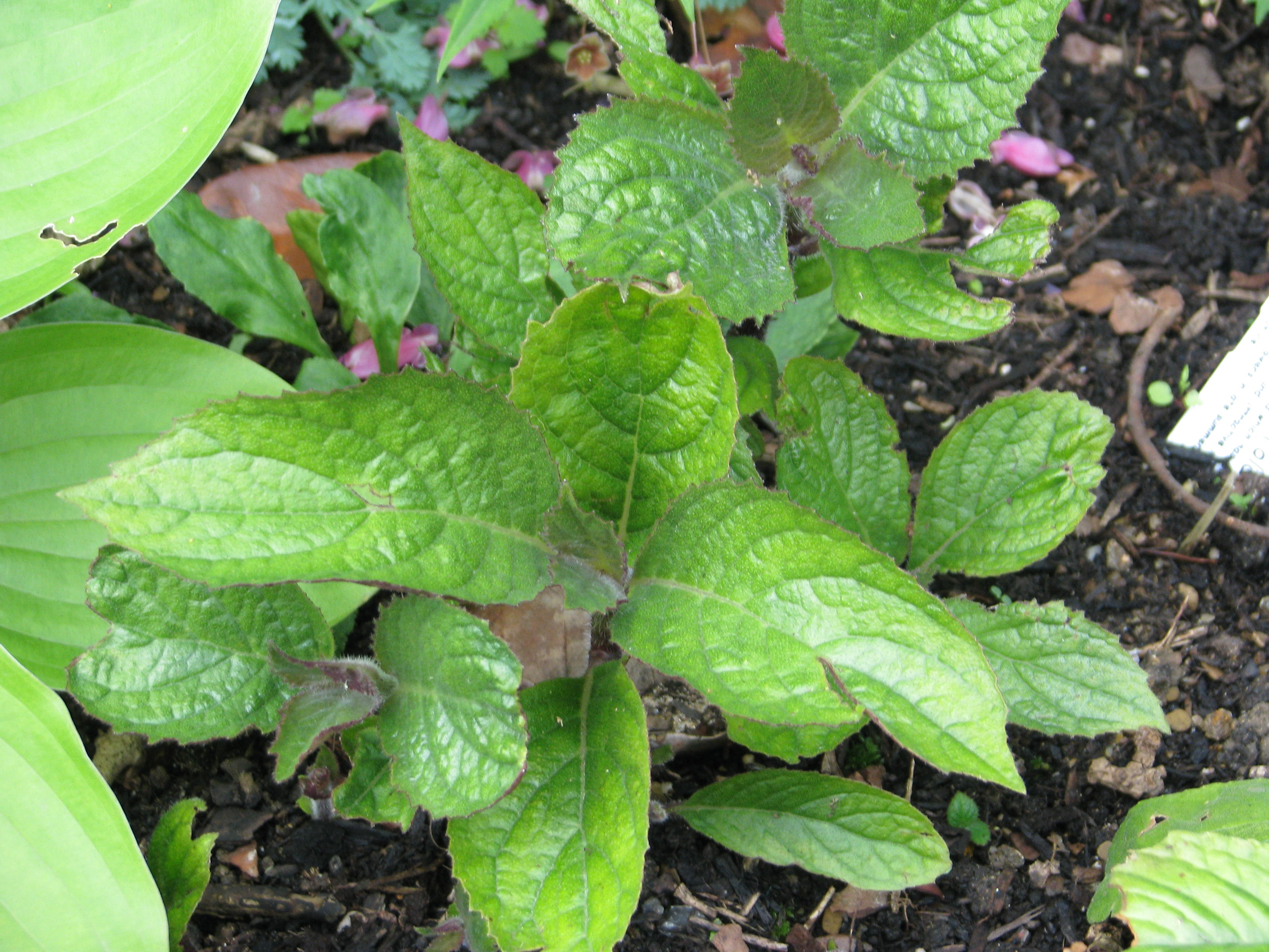 Coming along nicely. Now apparently the trick is not to let it dry out - ever - if it's to flower